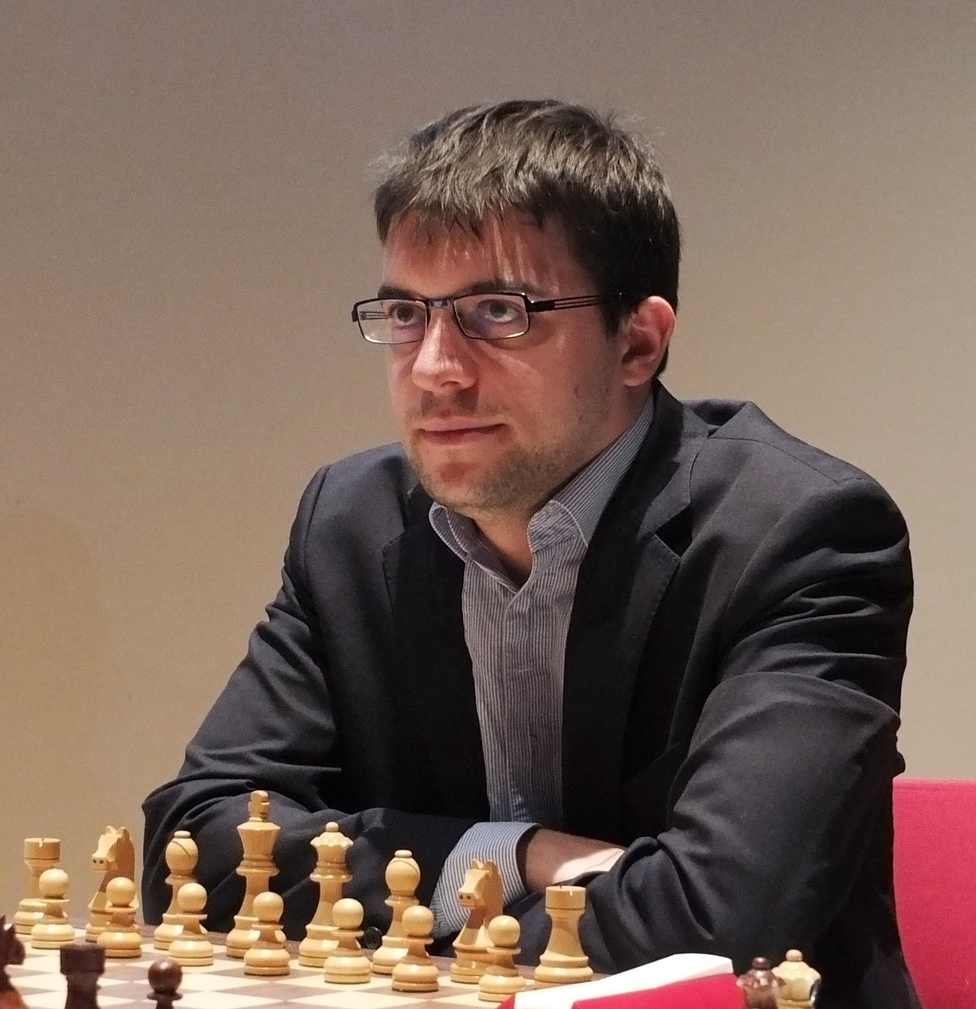 Maxime Vachier-Lagrave, chess grandmaster from the France at the Dortmund Sparkassen Chess Meeting